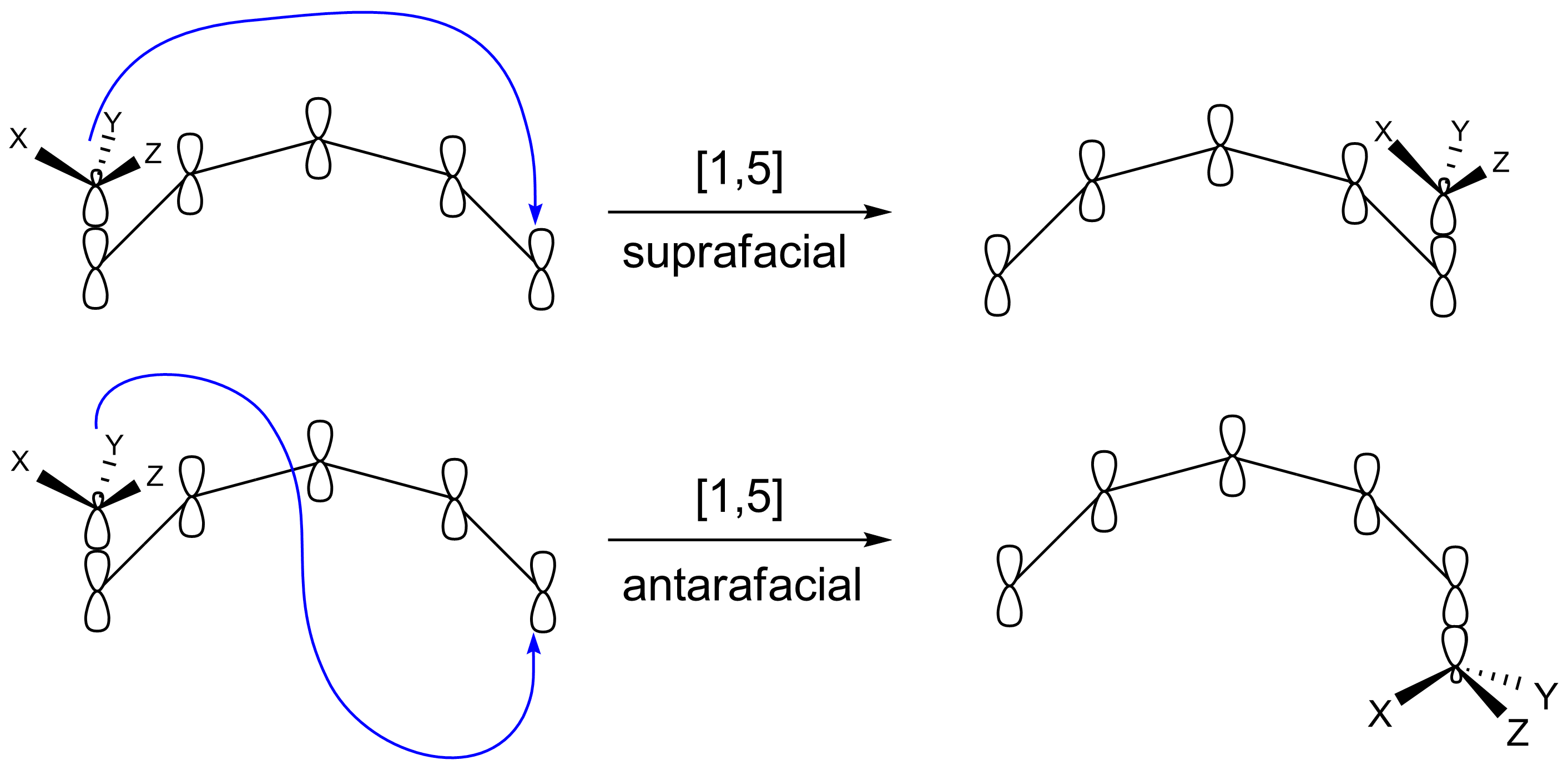 Suprafacial_antarafacial_[1,5].